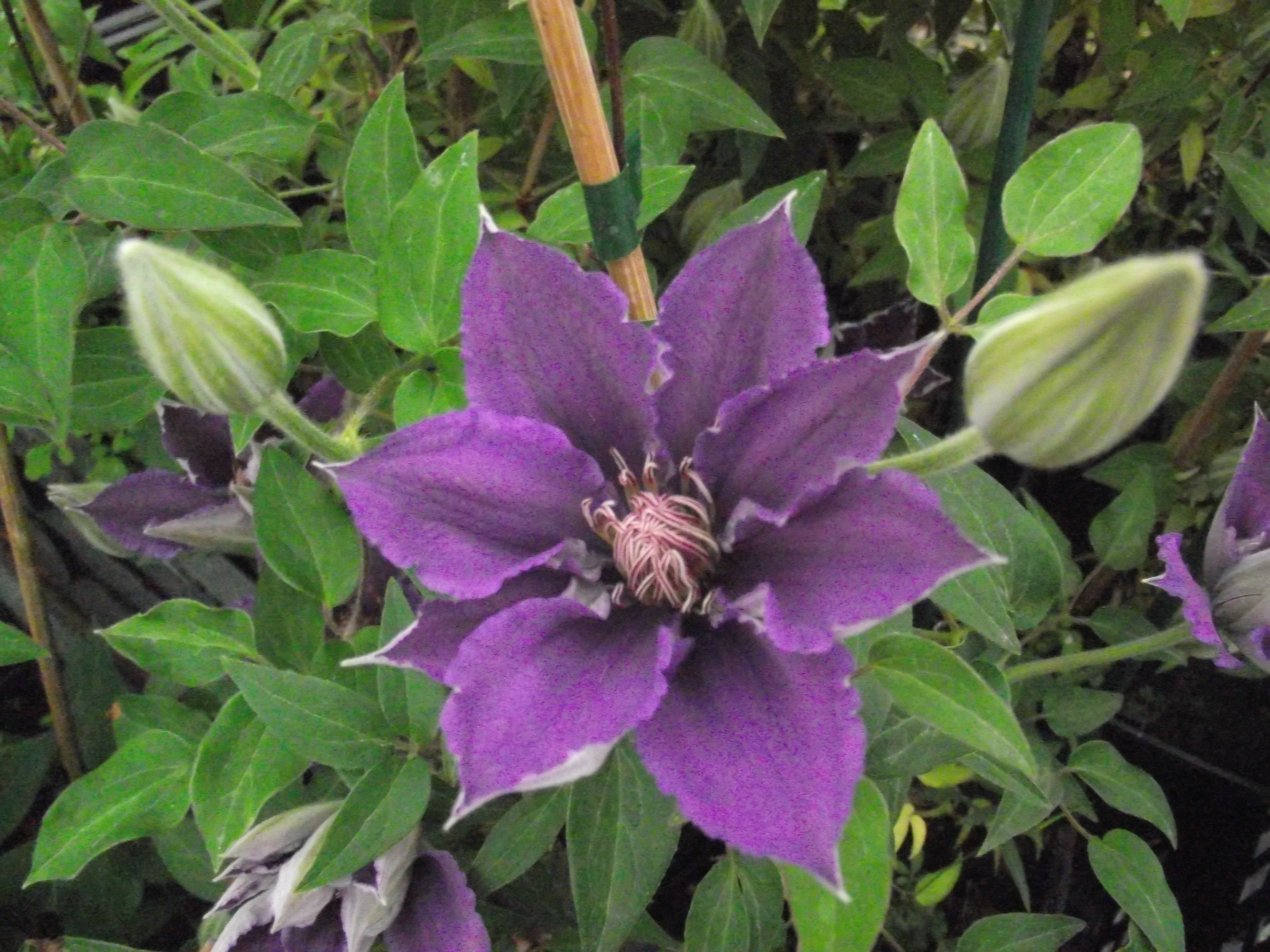 Clematis patens Bijou 'Evipo030'